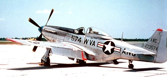 A U.S. Air Force North American F-51D-25-NA Mustang (s/n 44-73574) from the 167th Fighter Group, West Virginia Air National Guard, which flew the F-51 from 1948 to 1957. This aircraft is fitted with the post-war "uncuffed" Hamilton Standard propeller unit.